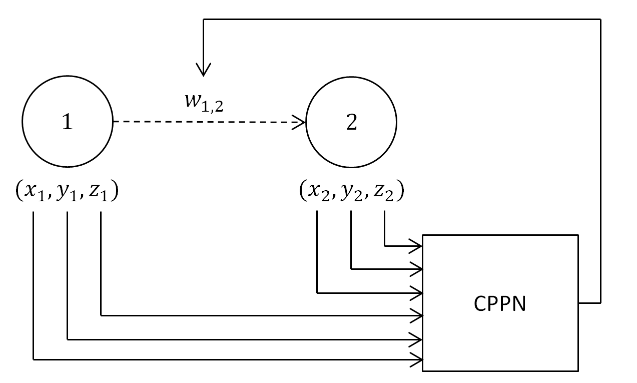 A diagram showing how the CPPN can be used to determine the connection weight between two neurons as a function of their coordinates in space.